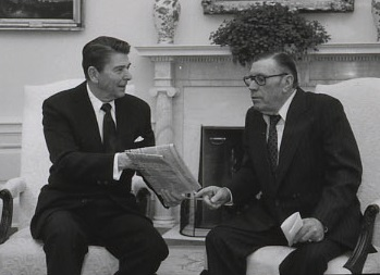 Roy Lee Williams in Oval Office with Ronald Reagan